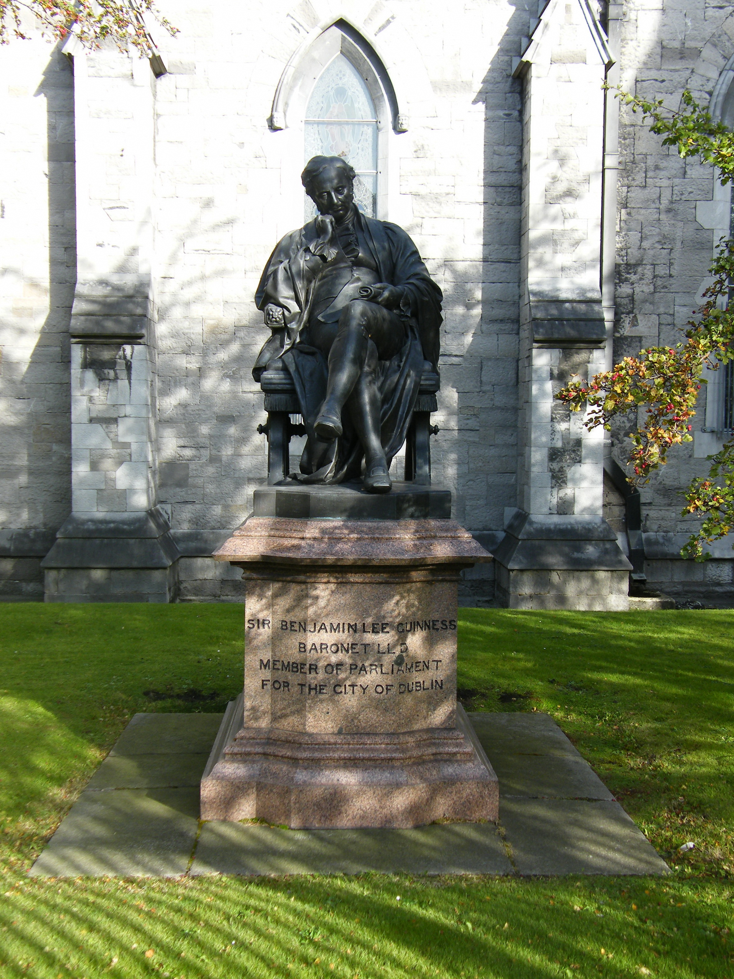 Statue of Benjamin Guinness near St. Patrick's Cathedral in Dublin John Henry Foley (1818–1874) Description Irish sculptor Date of birth/death24 May 181827 August 1874Location of birth/deathDublinHampstead